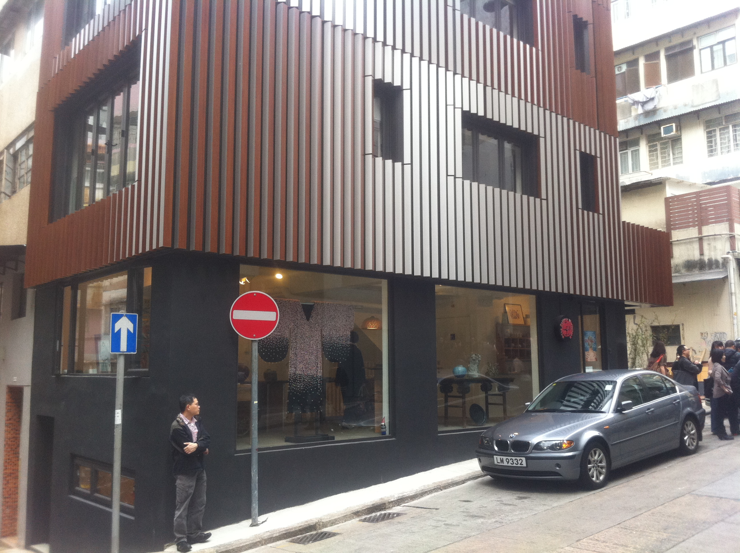 上環 太平山街 Tai Ping Shan Street, 24 Upper Station Street